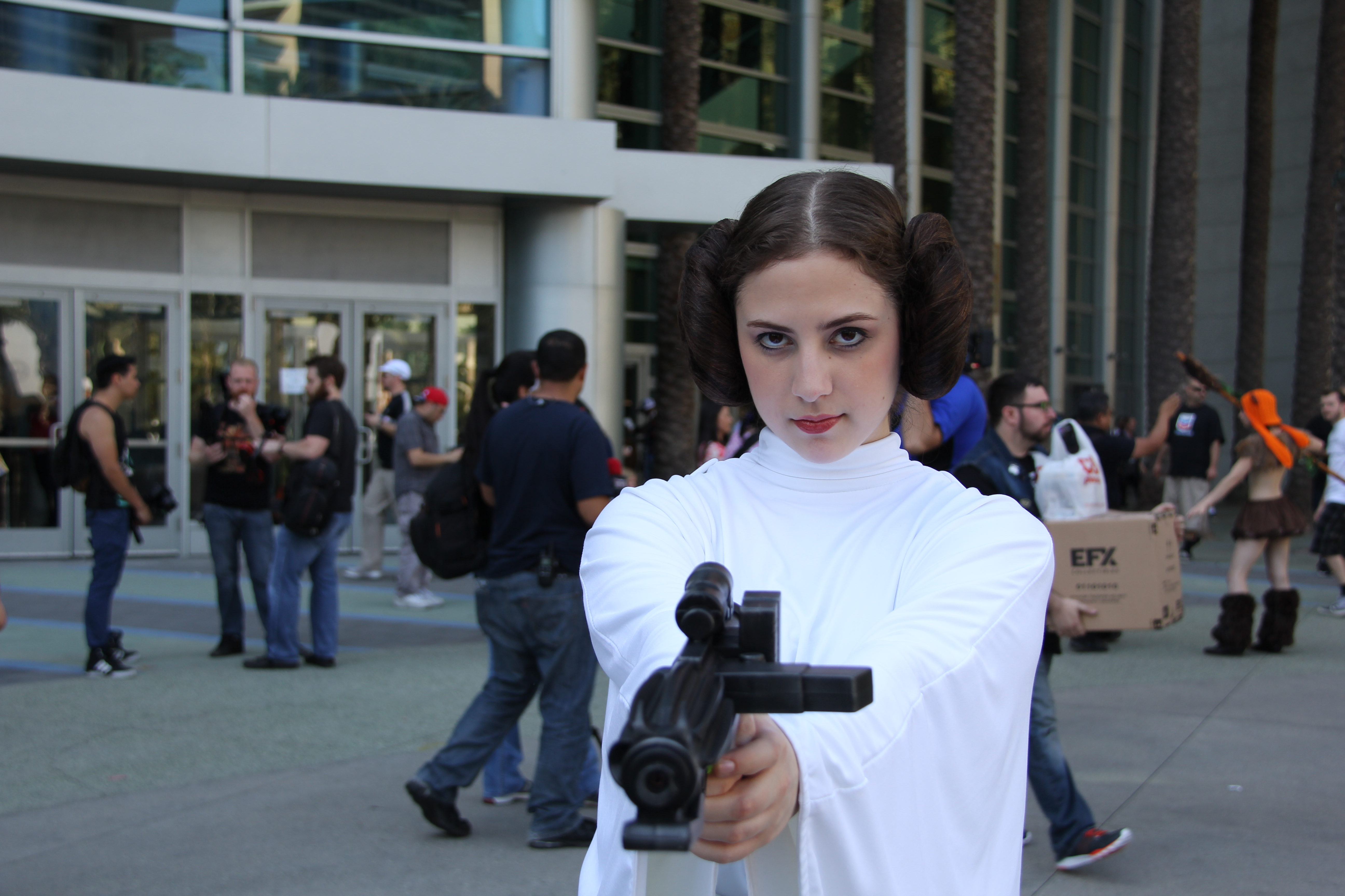 SWCA - Princess Leia Cosplayer Lauren Slattery (Instagram elegance_defined) costumes Princess Leia at Star Wars Celebration in Anaheim, April 2015.